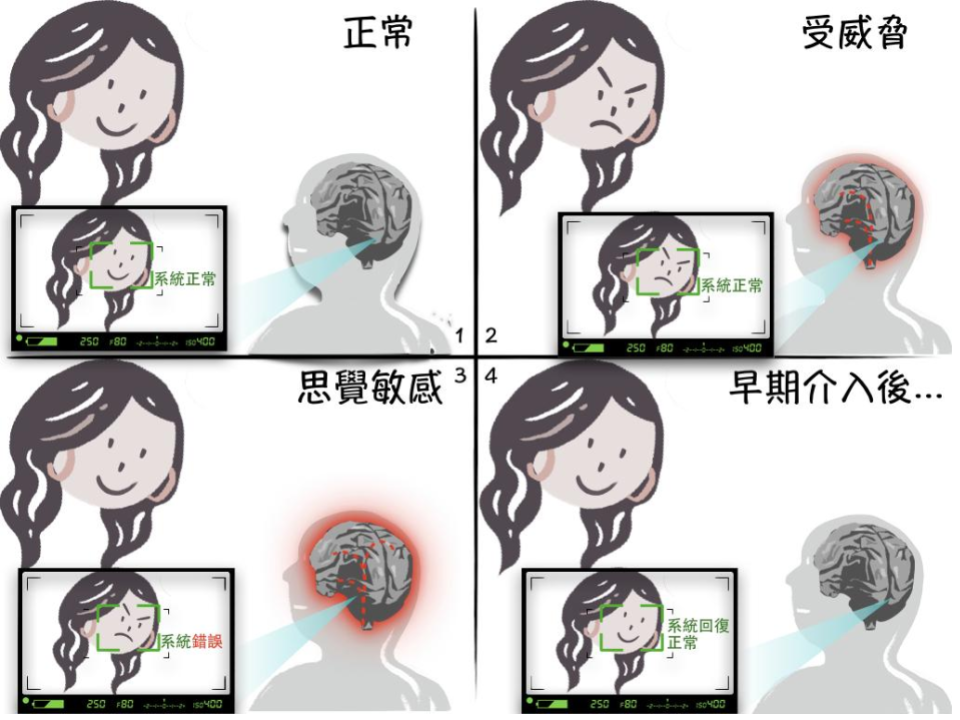 At-risk mental state illustration